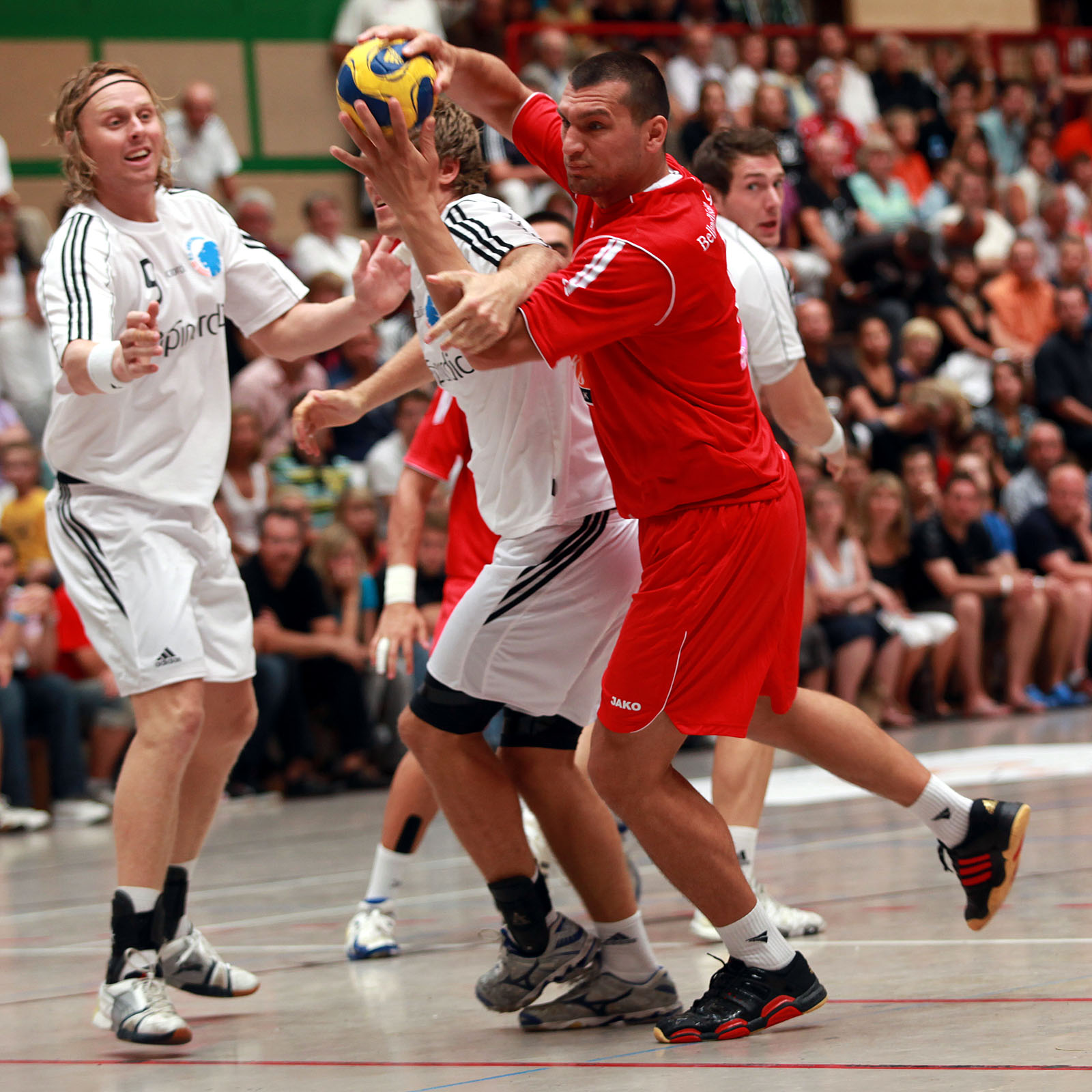 Uroš Vilovski, handball player from Serbia, playing for MKB Veszprém, on August 22nd, 2009 in Ehingen (Germany), during the Schlecker Cup 2009.